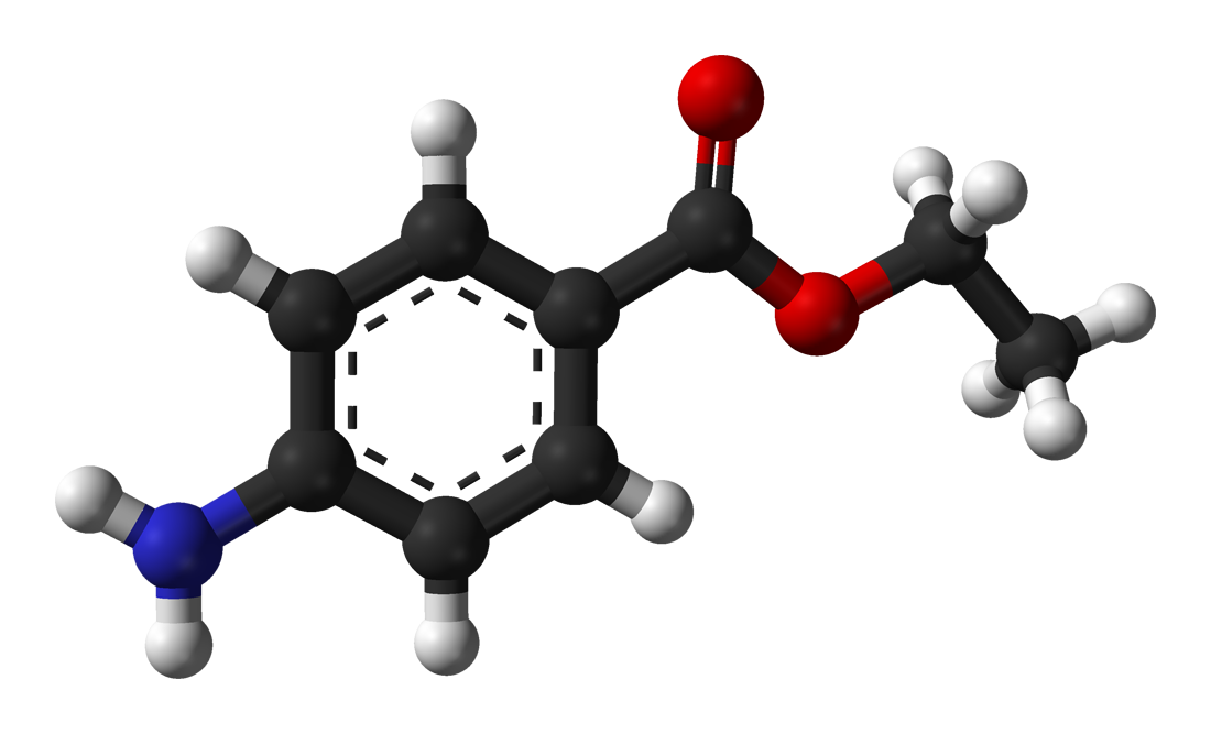 Ball-and-stick model of the lidocaine molecule, as found in the crystalline state. X-ray crystallographic data from D. E. Lynch and I. McClenaghan (July 2002). "Monoclinic form of ethyl 4-aminobenzoate (benzocaine)". Acta Cryst. E58 (7): o708-o709. Model constructed in CrystalMaker 8.1. Image generated in Accelrys DS Visualizer.